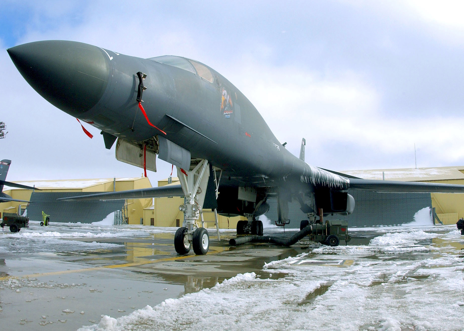 A B-1B Lancer sits on display during the family deployment line here Oct. 31. The line is organized by Ellsworth's family support center and gives family and friends the chance to see what the deployment process is like. (U.S. Air Force photo by Airman 1st Class Michael Keller)(Released)